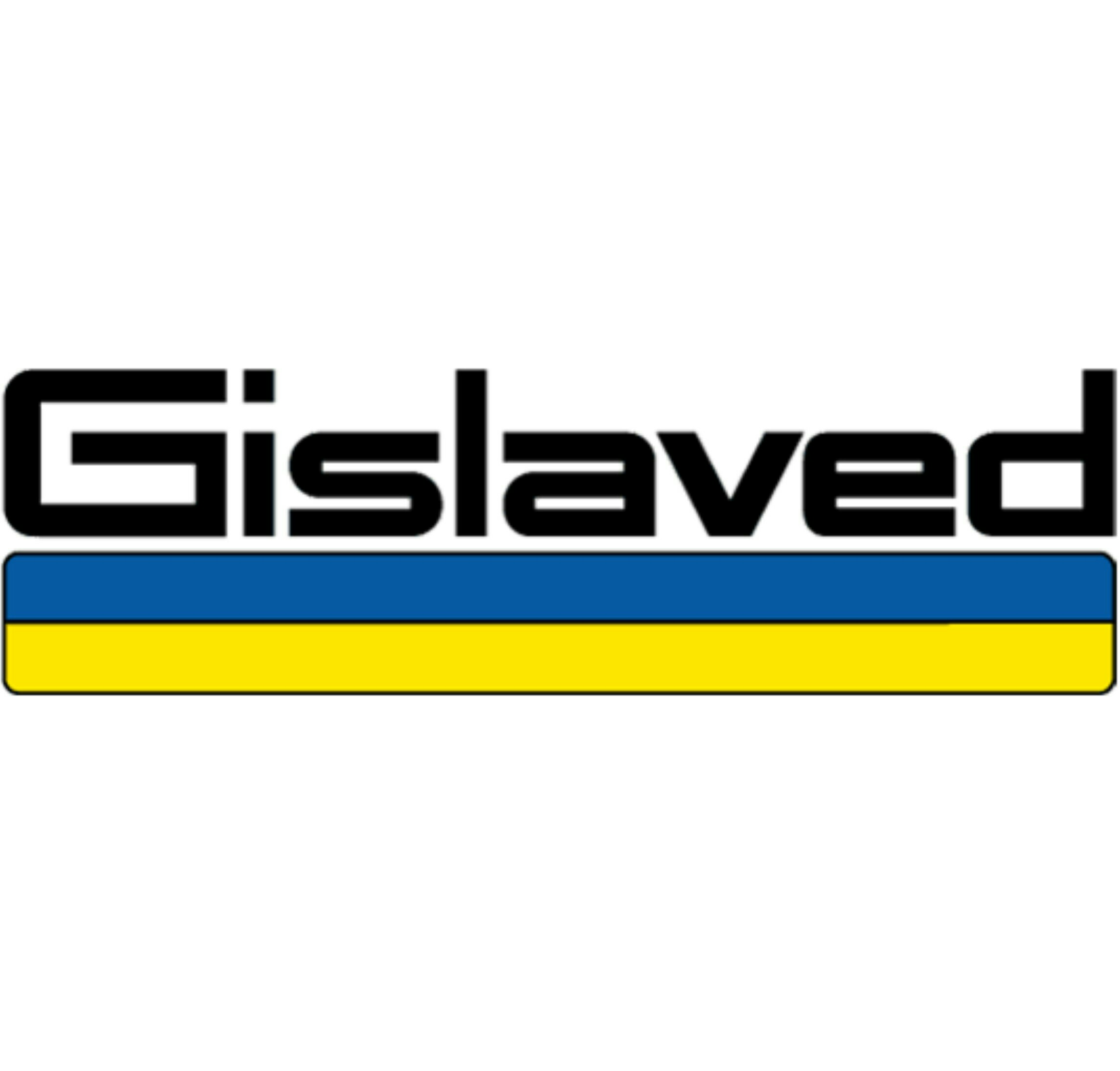 Gislaved Tires Logo Continental AG